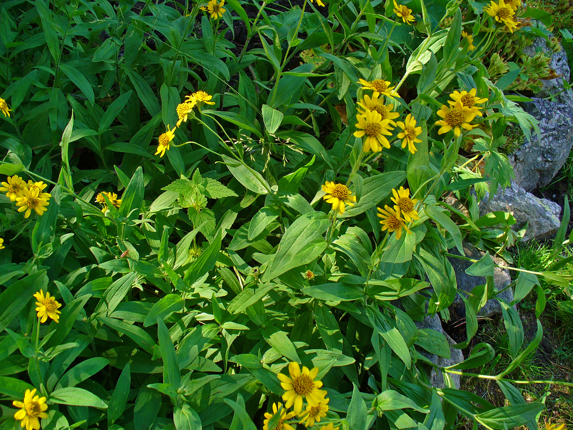 Arnica chamissonis, Asteraceae, Chamisso Arnica, habitus; Heidi’s Flower Trail, St. Moritz, Engadin, Switzerland, altidude ca. 2.000 m.